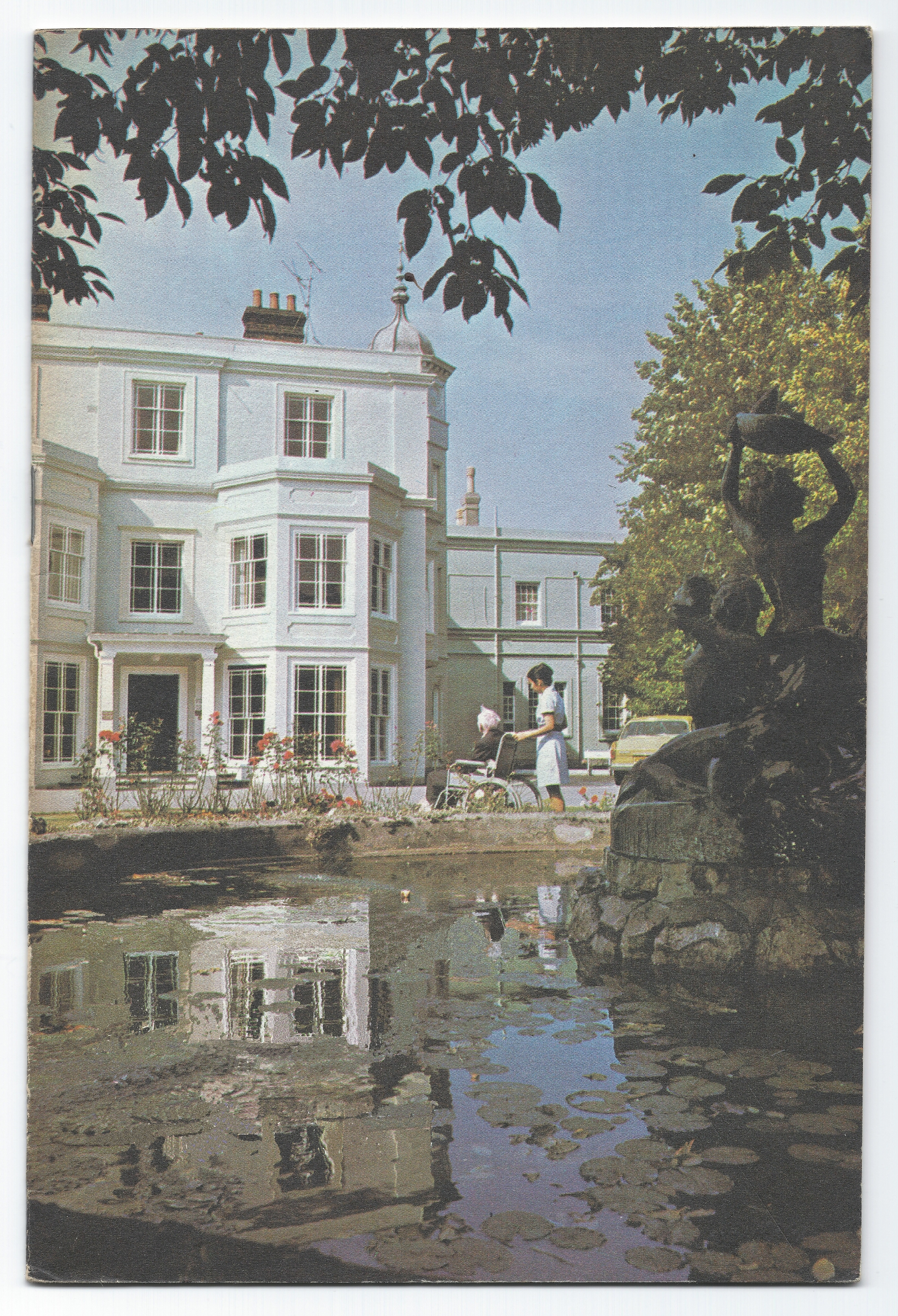 A scan of a photograph of the exterior of the main administration block of The Old Manor Hospital, Salisbury, UK, taken about 1974 showing the central fountain and Victorian French Statue. (hospital now closed)